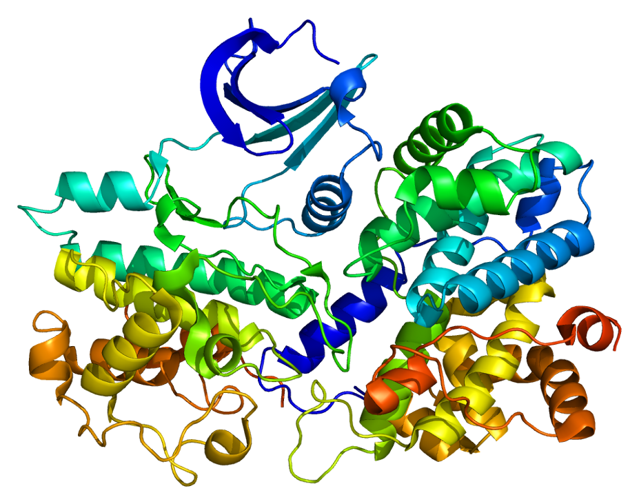 Structure of the CCNE1 protein. Based on PyMOL rendering of PDB 1w98.